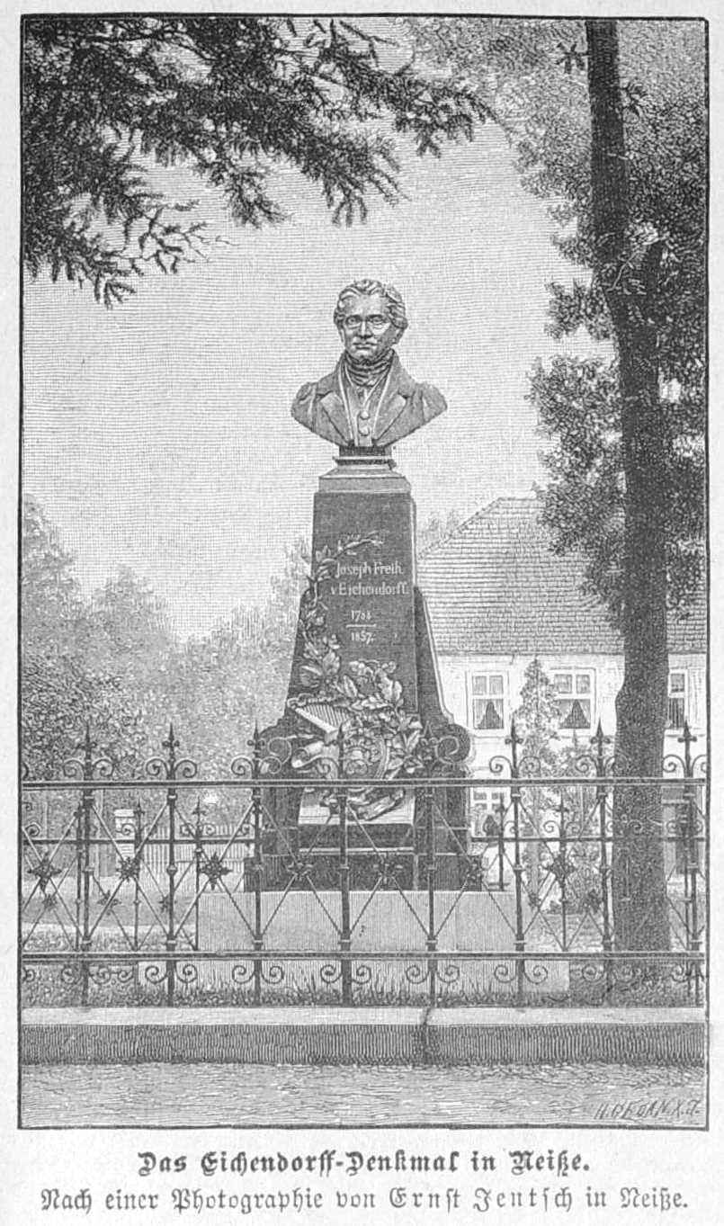 caption: "Das Eichendorff-Denkmal in Neiße. Nach einer Photographie von Ernst Jentsch in Neiße."